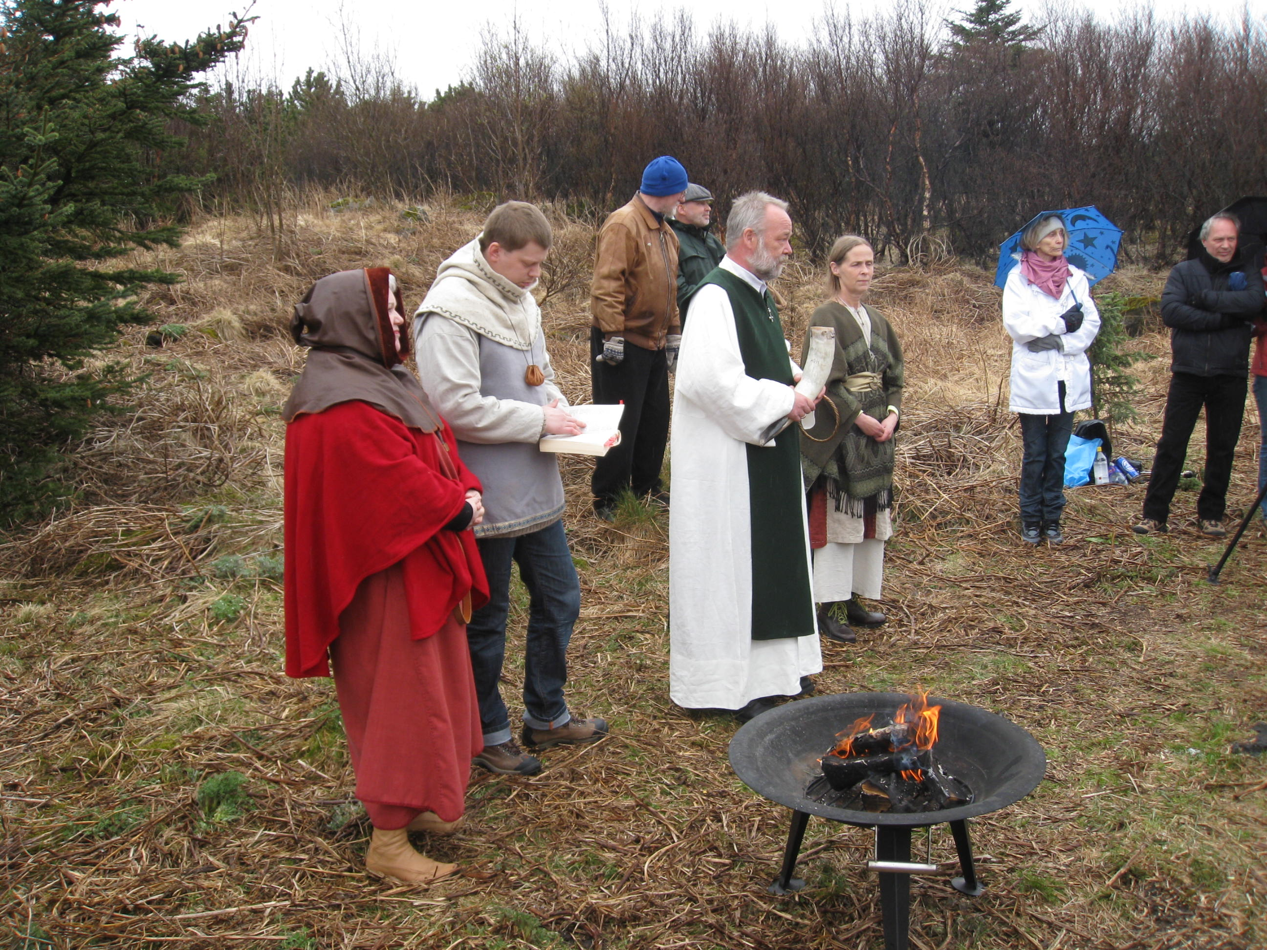 Sigurblót (Sacrifice for Victory) on the First Day of Summer 2009. Icelandic neopagans, members of Ásatrúarfélagið, are about to conduct a religious ceremony. The location is the land of Ásatrúarfélagið in Öskjuhlíð, Reykjavík. The woman to the left in red with her arms folded is Jóhanna Harðardóttir, Kjalnesingagoði (Goði (priest) of Kjalarnes). The man on her right is Árni Einarsson, another goði. He is holding a book in preparation for chanting verses from the Poetic Edda. The man in the center of the picture wearing white and green is Hilmar Örn Hilmarsson, allsherjargoði (Common Chieftain or High Priest). He is holding a drinking horn and a ceremonial ring. The ring is used for sanctifying the ceremony while the horn is used for libations to the gods and ceremonial communal drinking. Towards the bottom right is a ceremonial fire. The weather was mild but rainy, two participants can be seen with an umbrella. The clergy are wearing ceremonial robes while other participants wear everyday clothing. Not seen in this picture are the 50 or so participants standing in a semi-circle around the clergy. Those included a boy, probably 13 years old, about to undergo a simple coming-of-age ceremony.